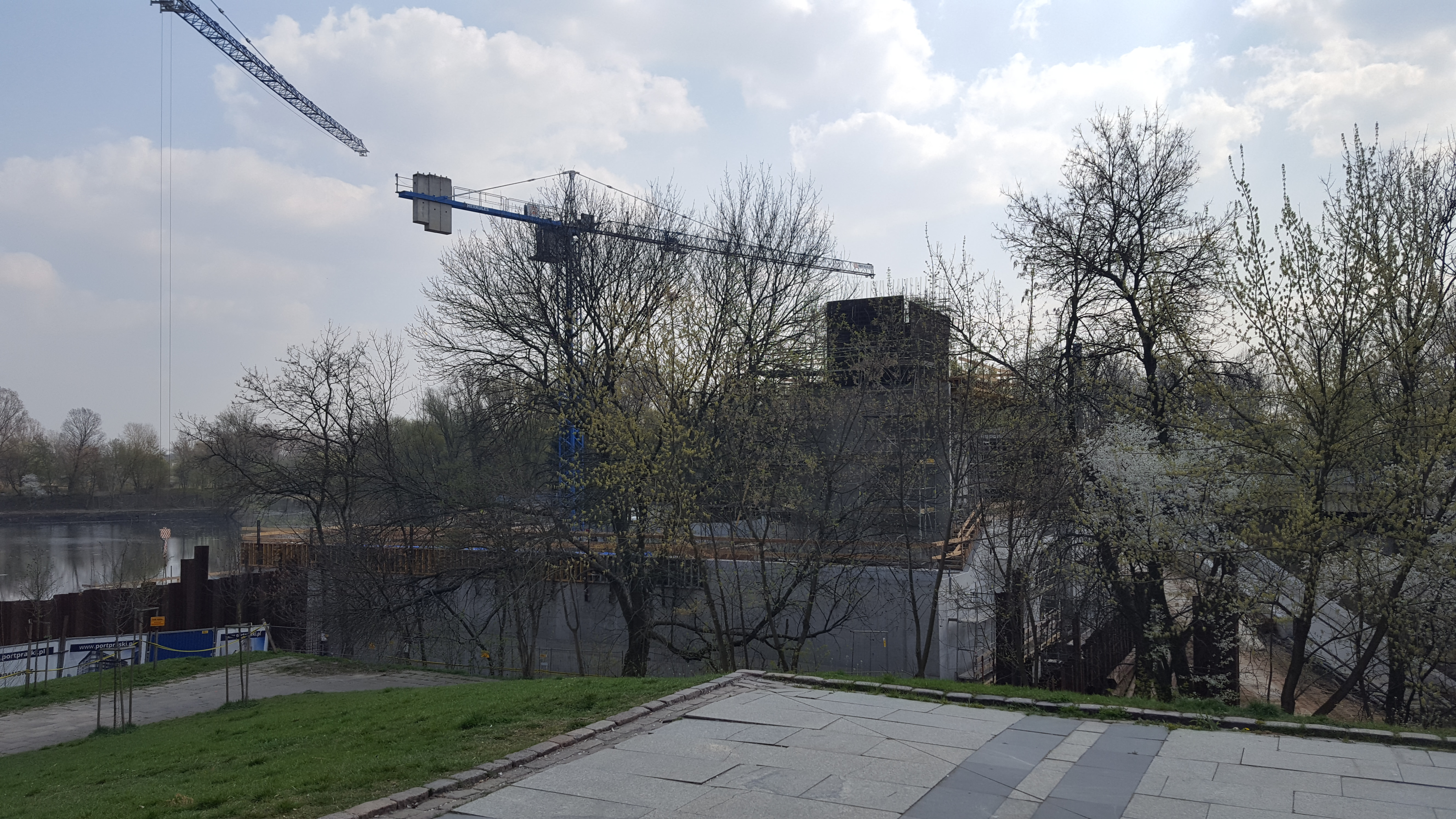 Port Praski Development 2019